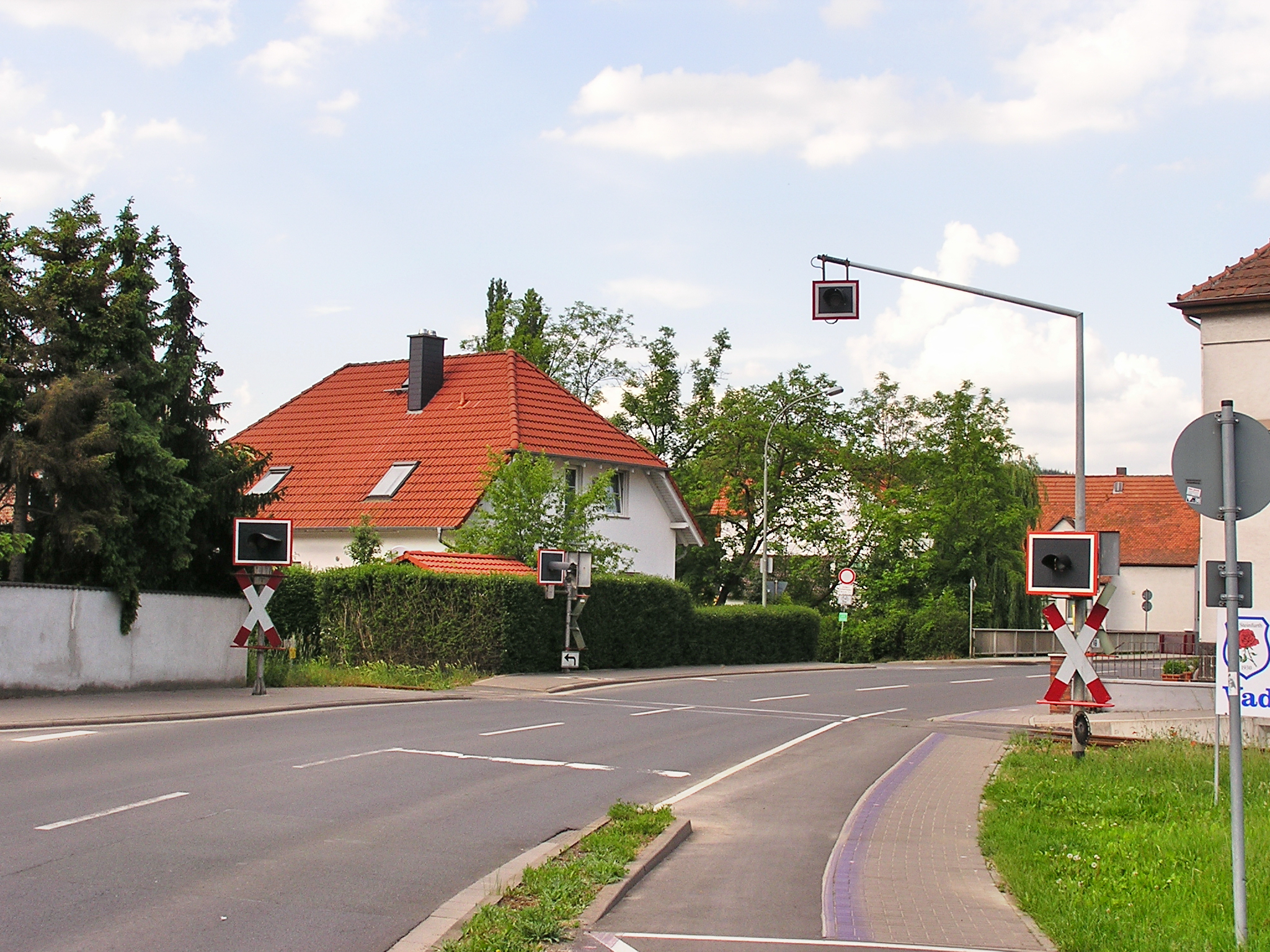 level crossing with additional light at the branch track of the Butzbach-Licher Eisenbahn in Bad Nauheim-Steinfurth